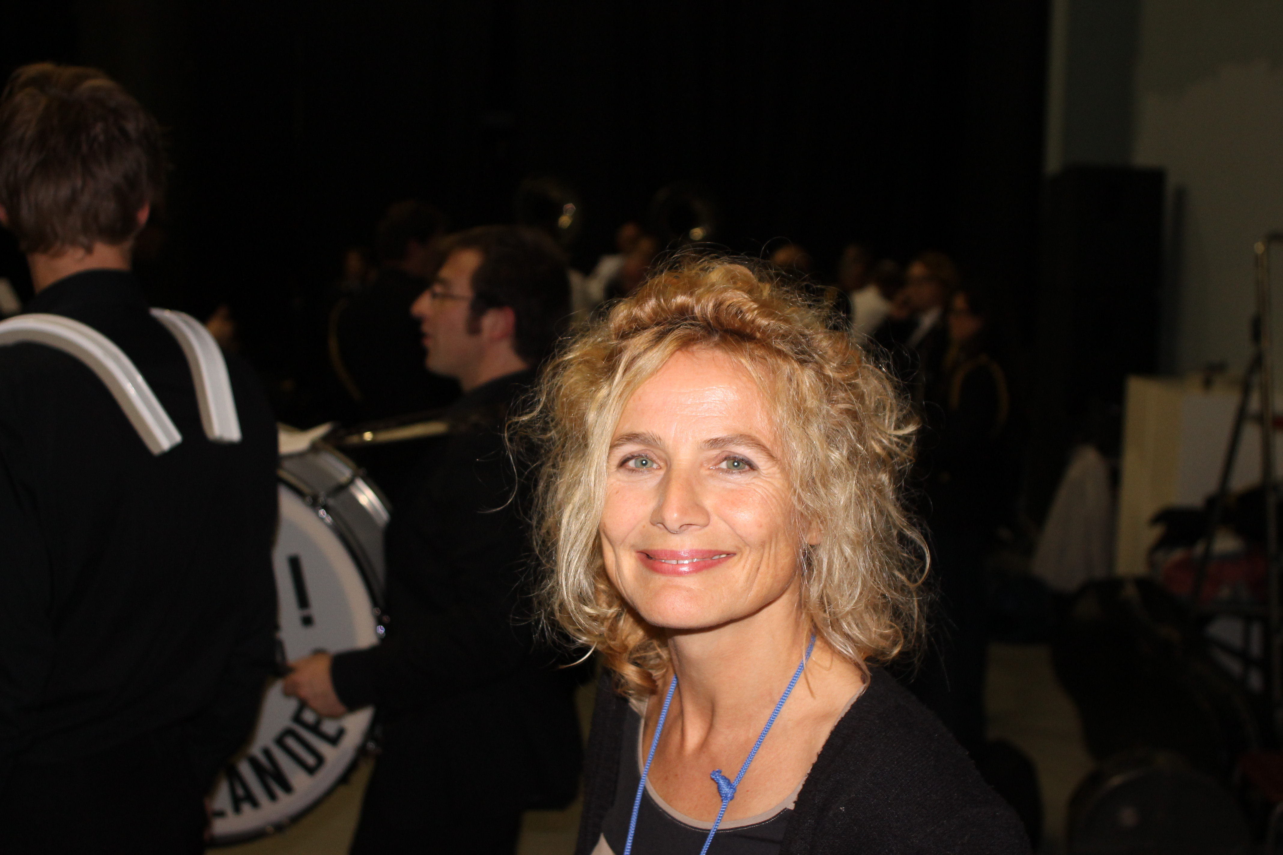 Huba de Graaff - composer